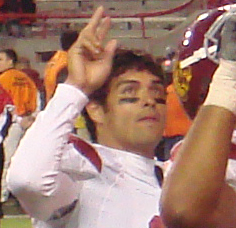 Quarterback Mark Sanchez celebrates a USC victory over Nebraska. He is making the traditional USC Trojan "V" for victory hand sign. This is a crop of my own earlier photo for use in a season article (2007).